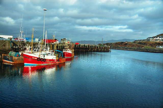 Fishing boats Mallaig Harbour.